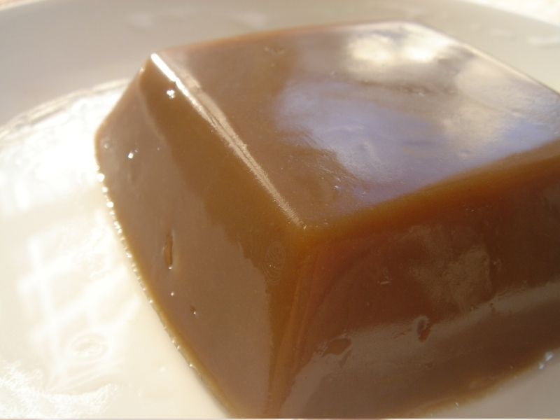 Author:en:User:Sjschen, Source:Selfmade from picture taken by self, Free for public use though acknowledgements would be nice Category:Korean cuisine